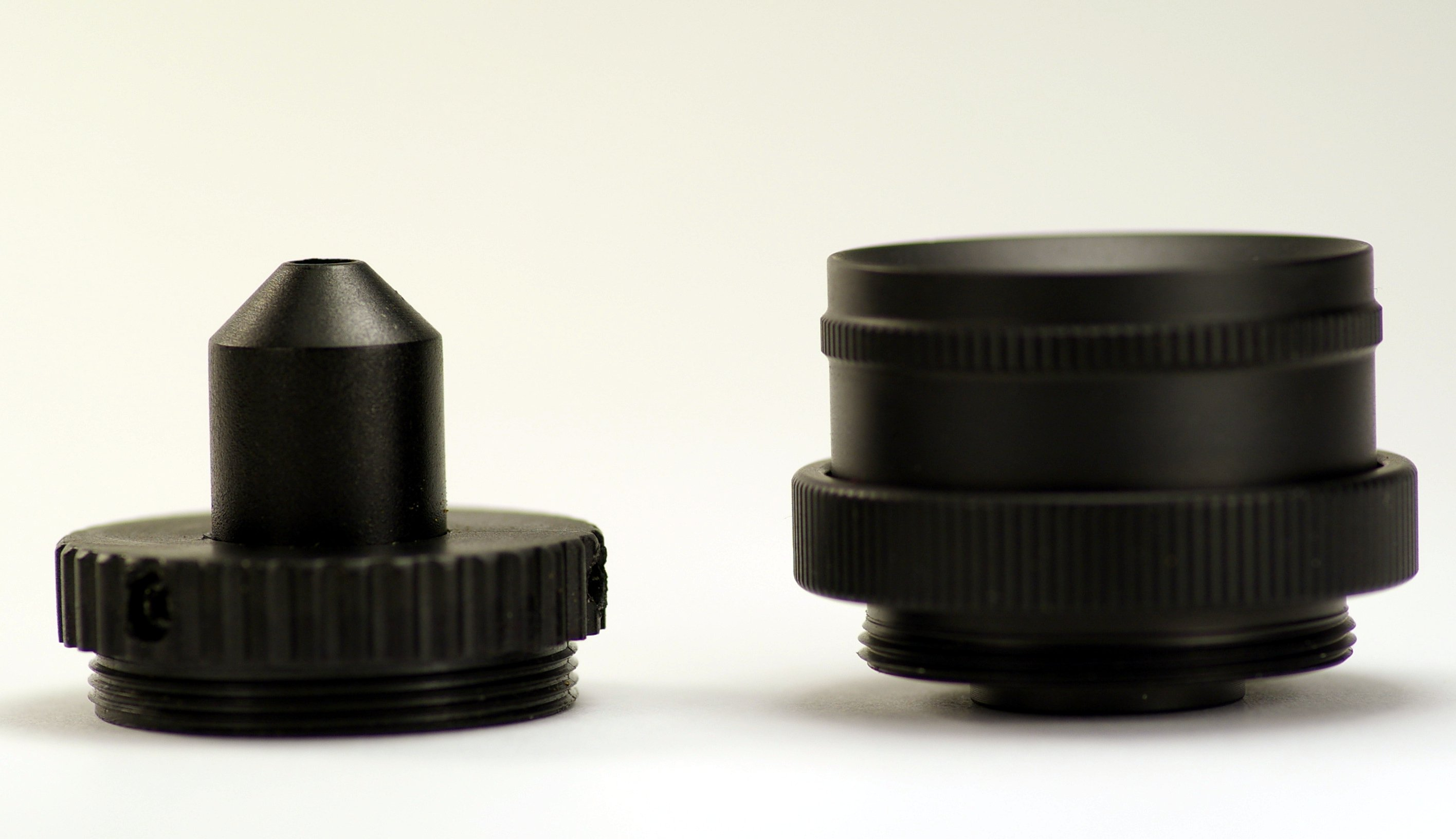 A Marshall Pinhole Lens 10mm f/2.8 (left) compared to a 6mm f/1.8 lens(right). Both lenses are CS-Mount.